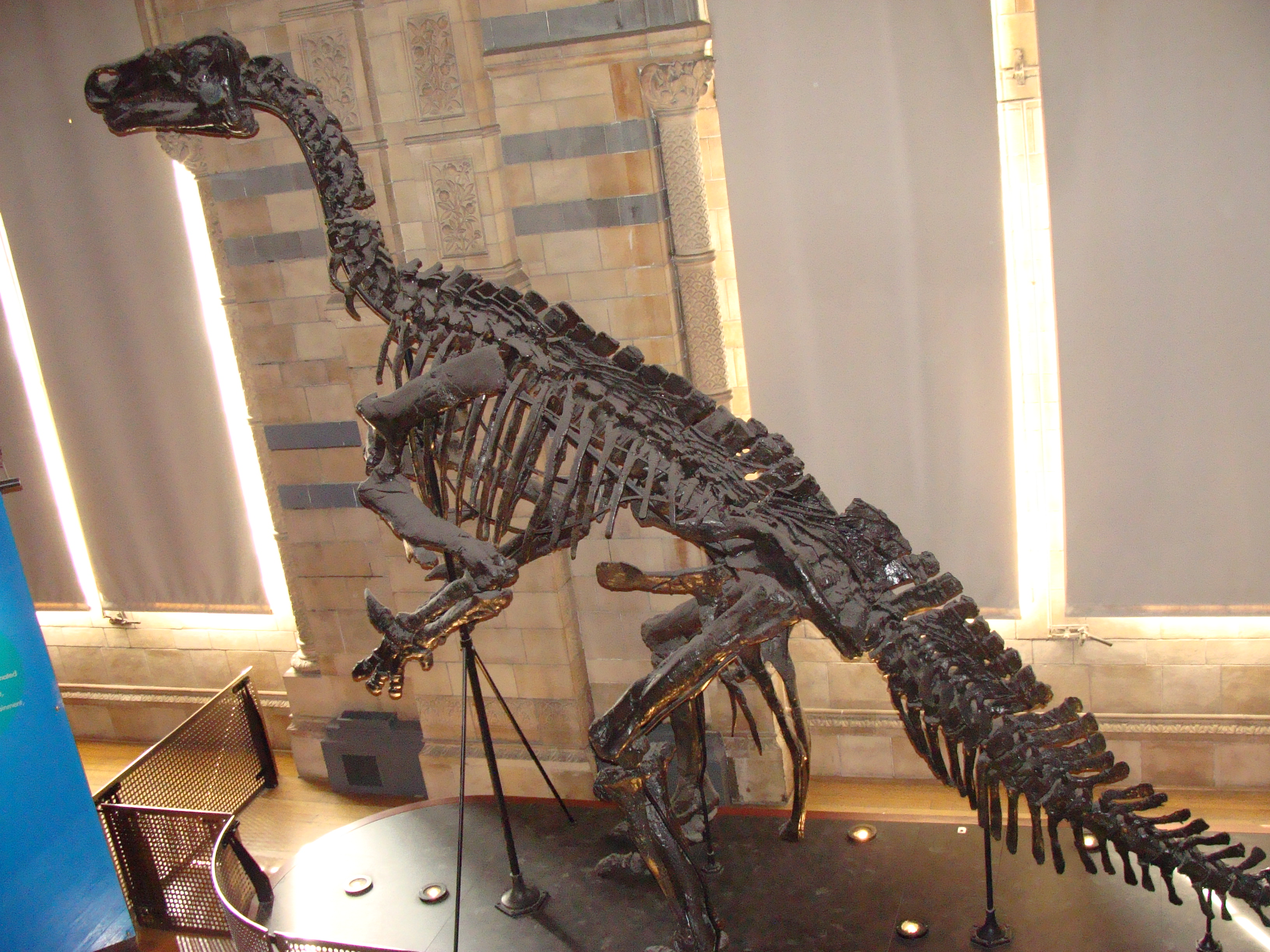 Iguanodon bernissartensis (replica) in the Natural History Museum of London